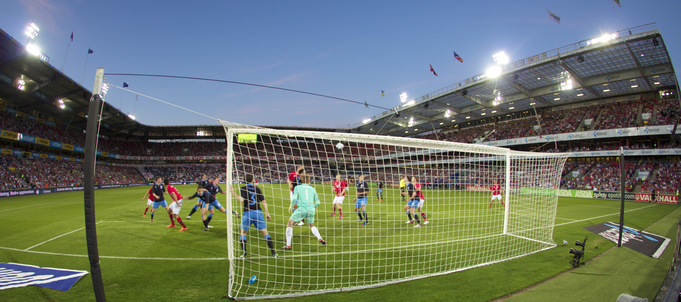 During a May 2012 friendly between Norway and England.